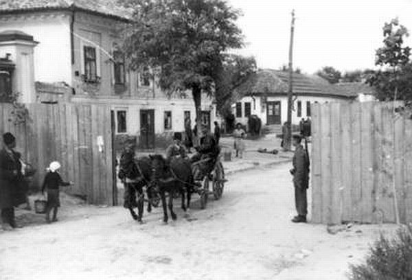 Kishinev getto